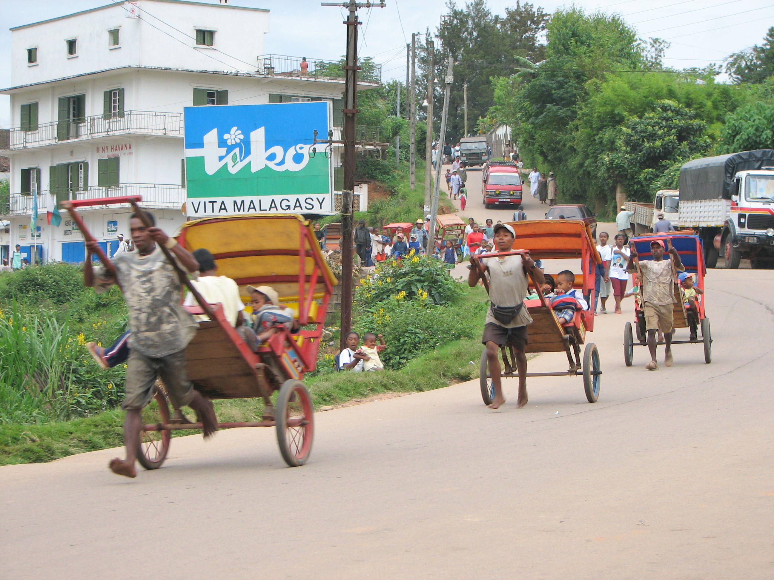 Rickshaws, Ambositra, Madagascar